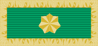 Unit Citation for Gallantry with Federation Star, Australia